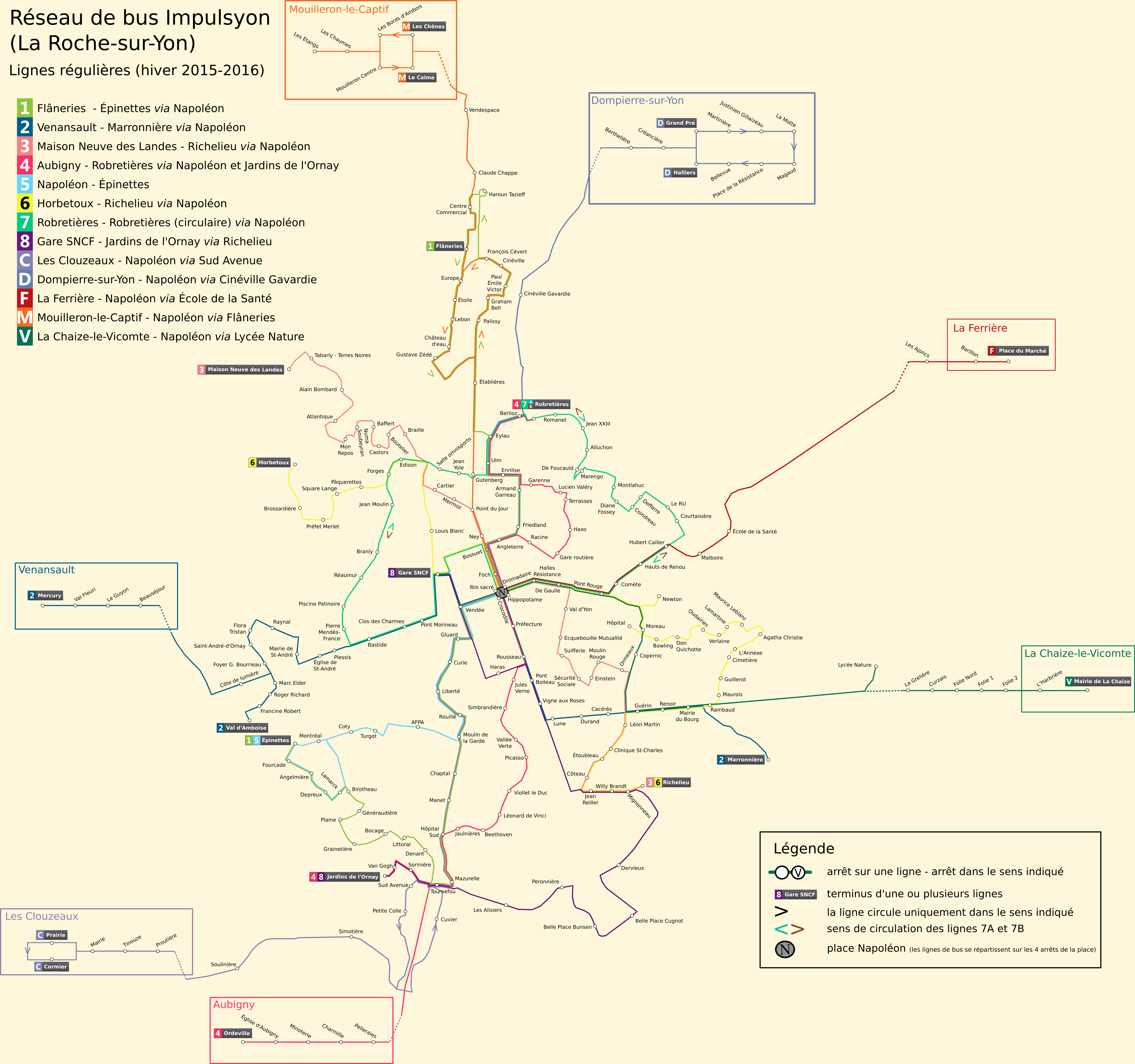 Network map of La Roche-sur-Yon buses (Impulsyon)